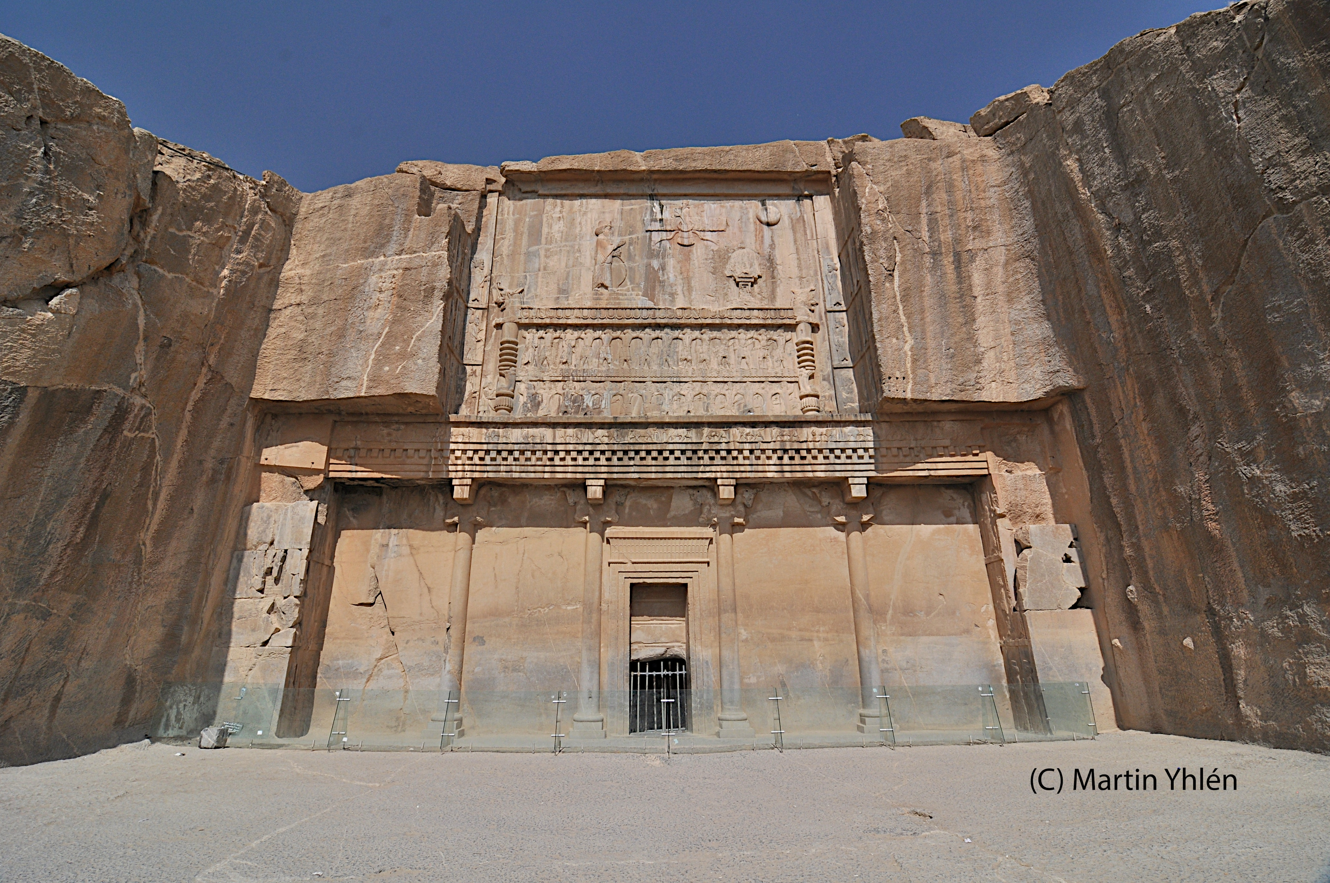 Iran, Persepolis, Tomb of Artaxerxes III